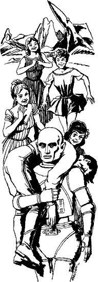 Illustration of "Service with a Smile", Charles L. Fontenay's 1958 short science fiction.